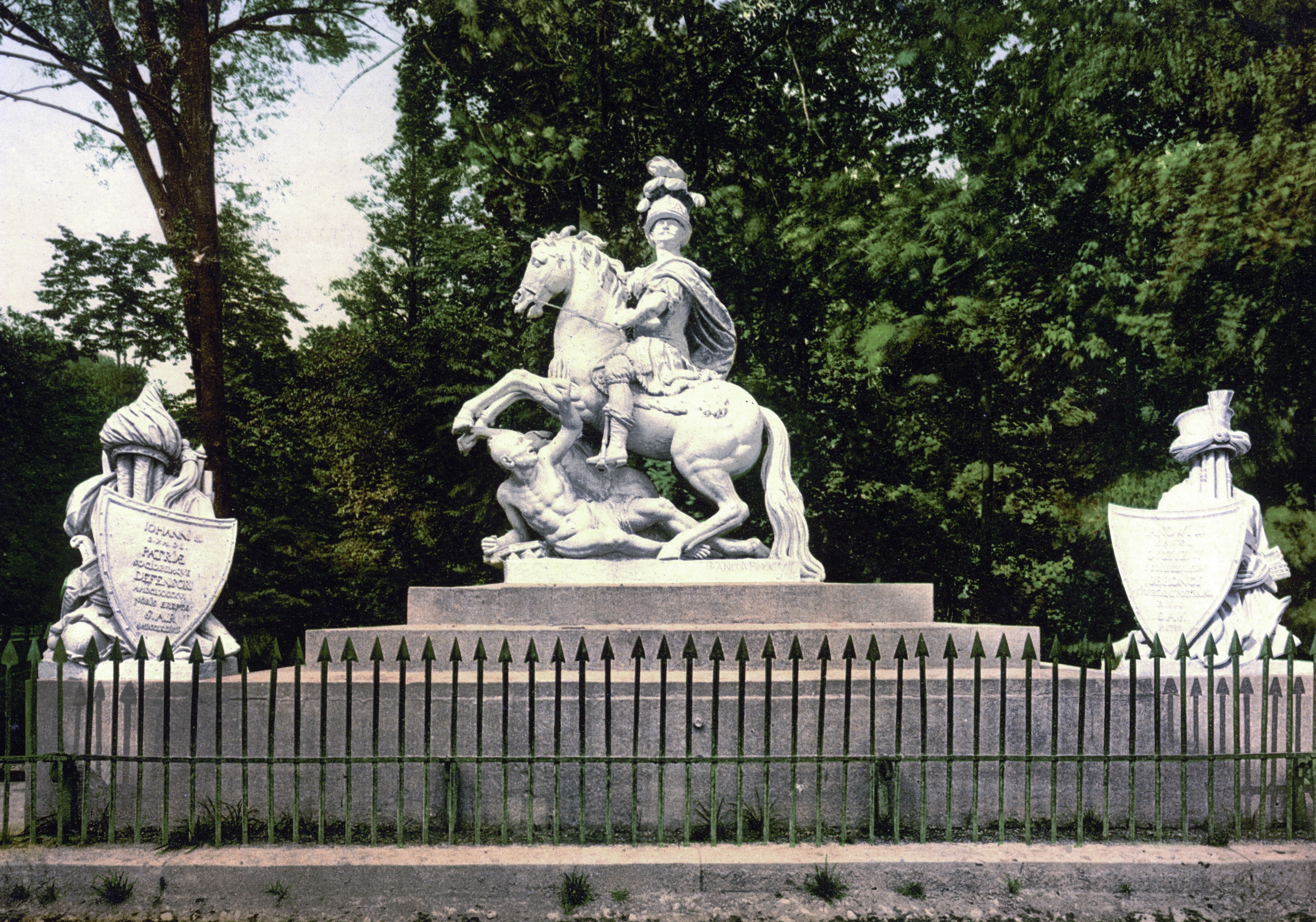 Sobieski Monument Warsaw about 1900